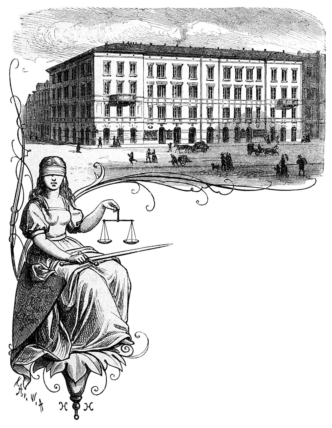 Image from page 660 of journal Die Gartenlaube, 1879.George Hall in Leipzig, Bruehl 80/Goethestrasse 8 (built in 1857, destroyed in 1943), from 1879 to 1895 seat of the Reichsgericht (Court of the German Empire).